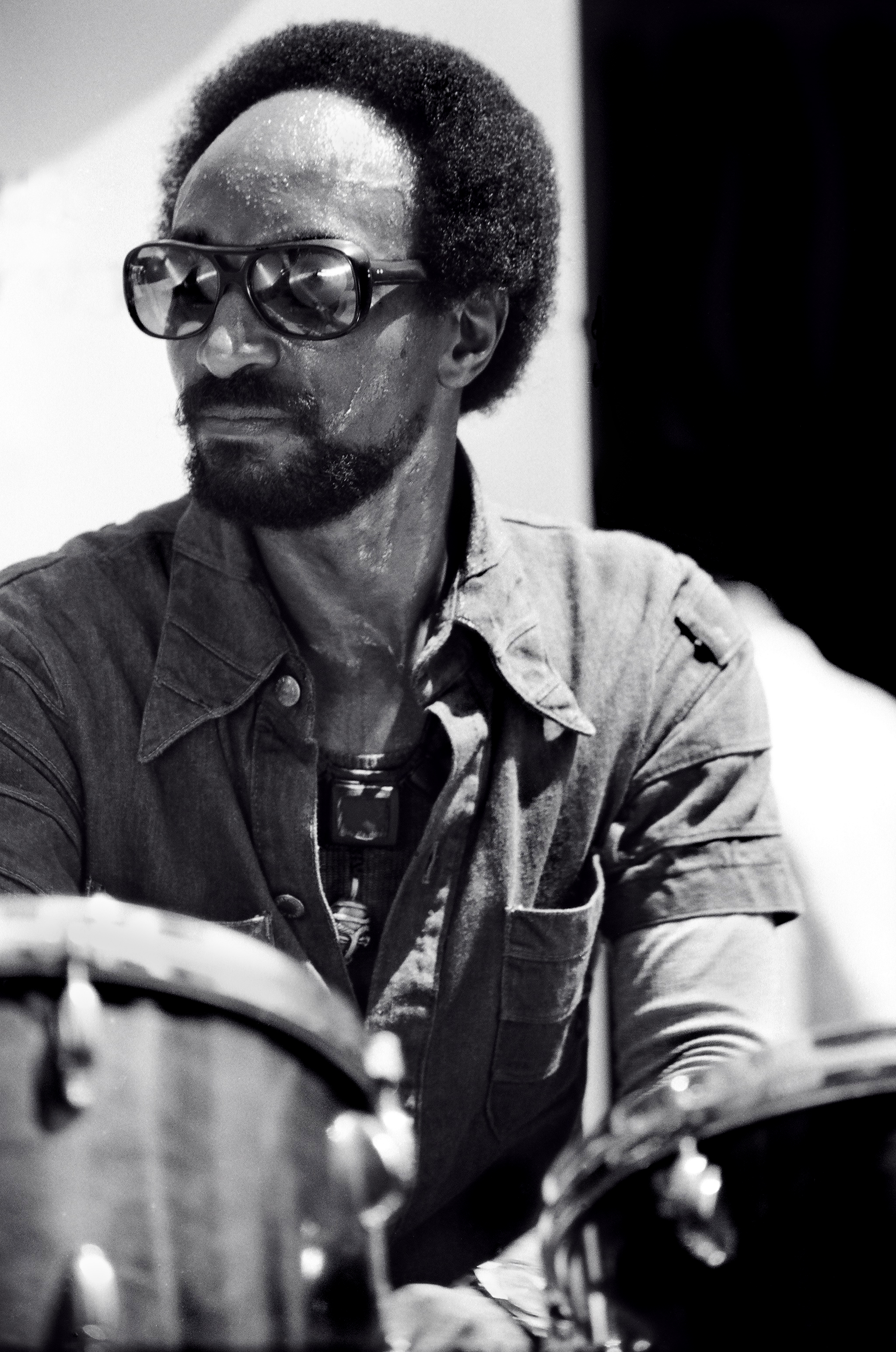 Freddie Waits, 52nd Street Jazz Fair, July 6, 1976 NYC